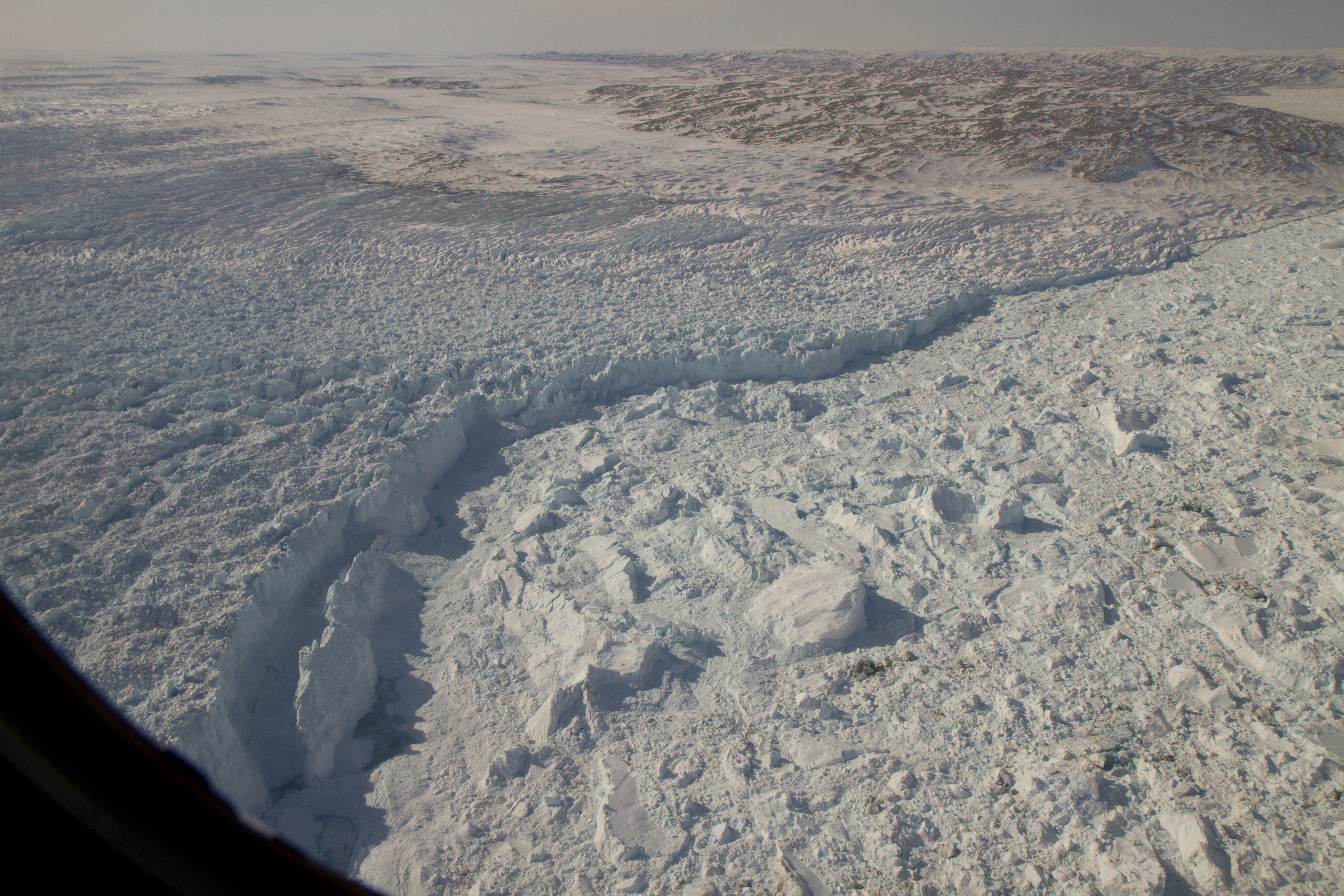 The calving front of the Jakobshaven Glacier in western Greenland, on April 21, 2012. Credit: Jefferson Beck/NASA